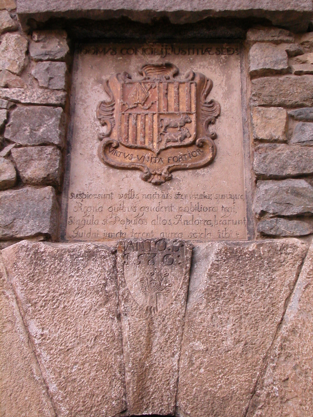 The old coat of arms of Andorra at Casa de la Vall, parliament, in Andorra la Vella, the capital city of the country.